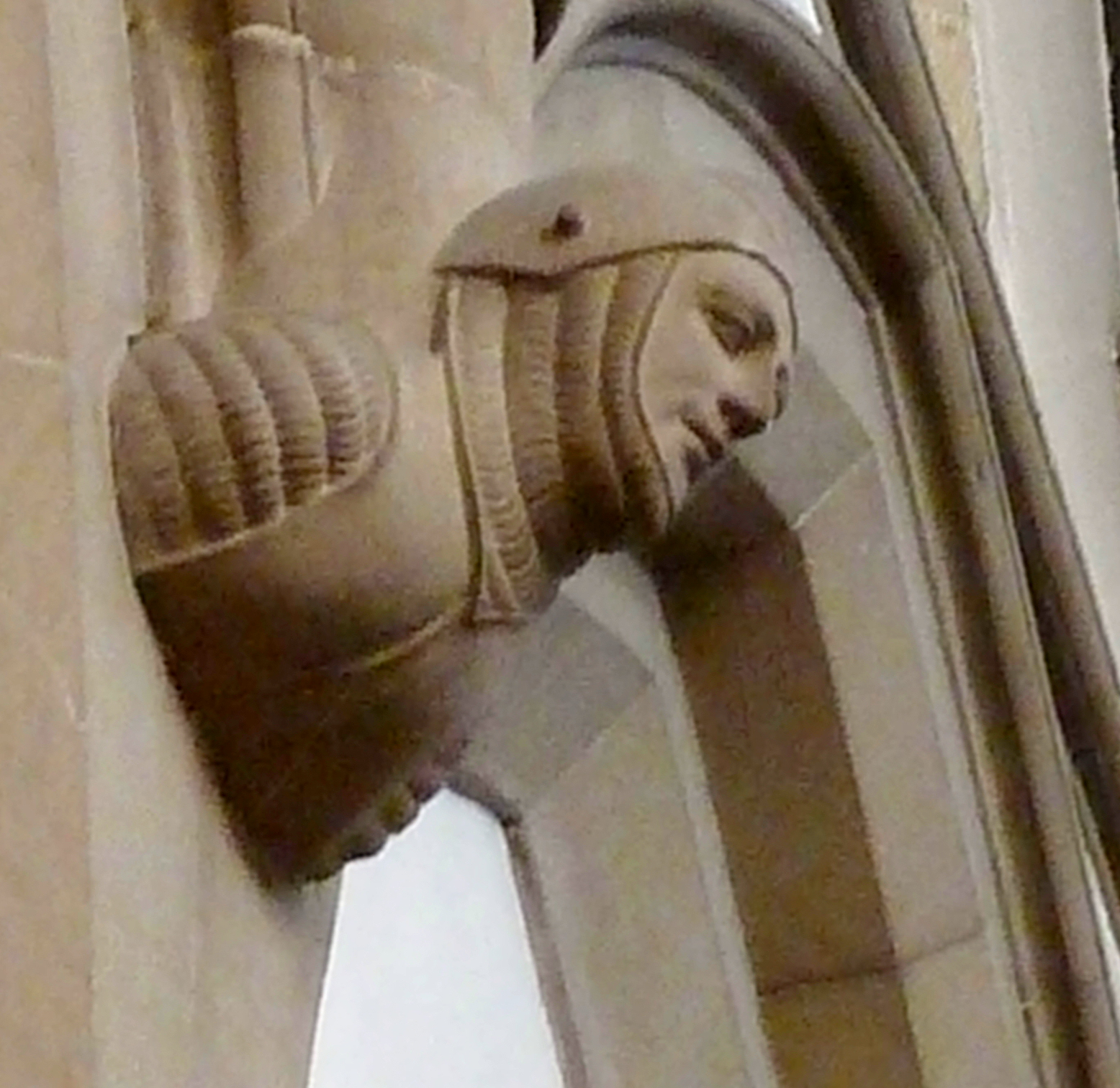 St Paul's Church, Manningham, Bradford, West Yorkshire, England. Designed by Mallinson & Healey, completed 1846. All stone carving by Robert Mawer. (Note: the outdoor carvings are badly weathered, and the Caen stone font was overlaid with white undercoat and beige gloss paint during the 1971 reordering.) Showing corbel in nave.